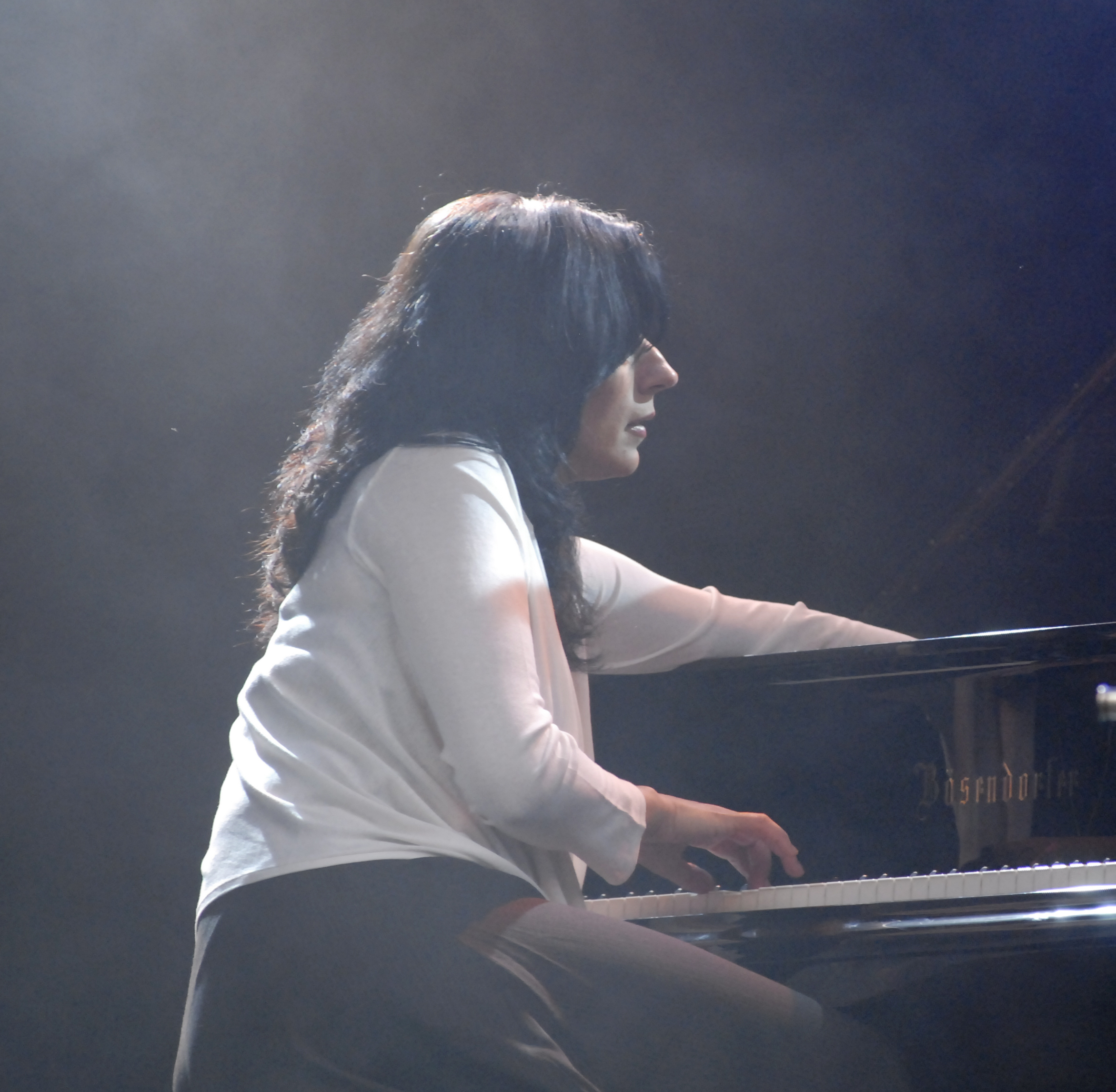 Amina Figarova Septet International Jazz Festival Middelburg. (Photo Courtesy Eddy Westveer). Do not copy this photo for any project outside Wikipedia, please, it has attribution to Eddy Westveer. Permission to Wikipedia to use the photo _EW00349